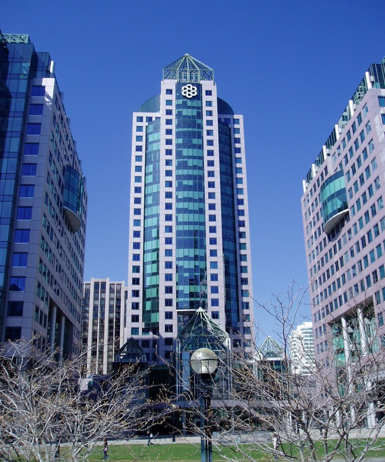 Municipality of Metropolitan Toronto Building